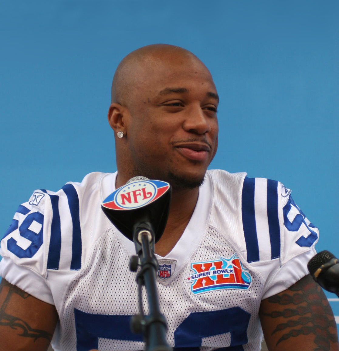 Crop and touch up of: File:20070130_Cato_June_at_Super_Bowl_XLI_press_conference_edit1.jpg Removing some more artifacts from the BG and cropped to be a more presentable composition.